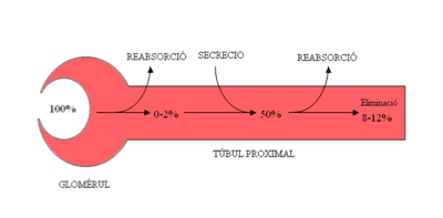 Acid uric